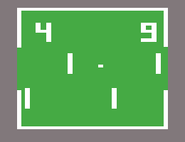 Screenshot for the video game.